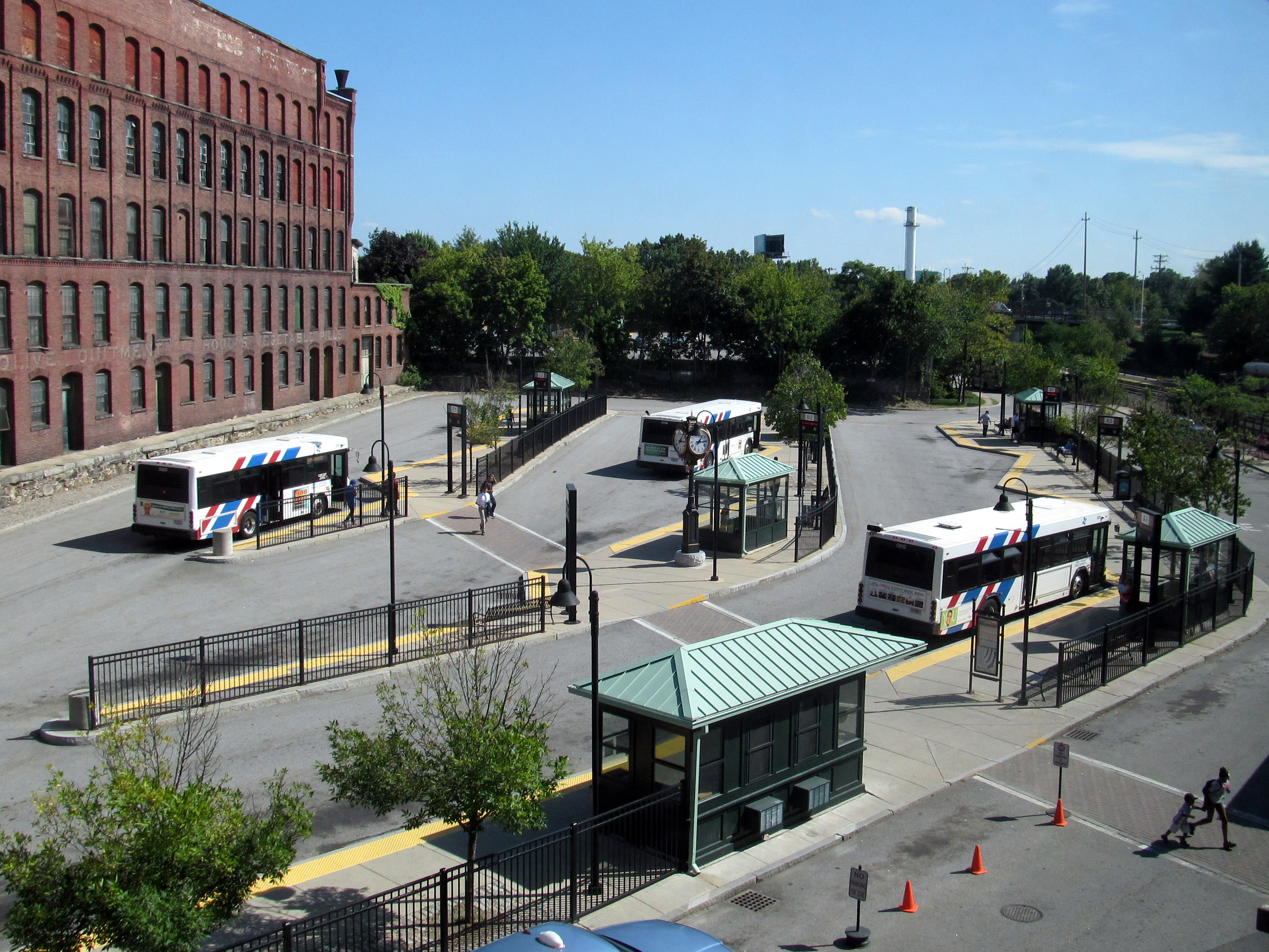 LRTA buses at Robert B. Kennedy Bus Terminal at Lowell station in August 2012